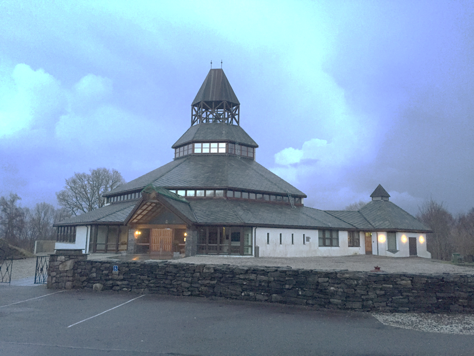 Sund kirke, church in Klokkarvik, Sund.